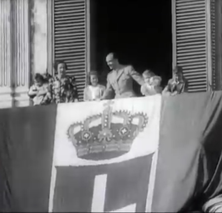 King Umberto II behind of Flag of Kingdom of Italy